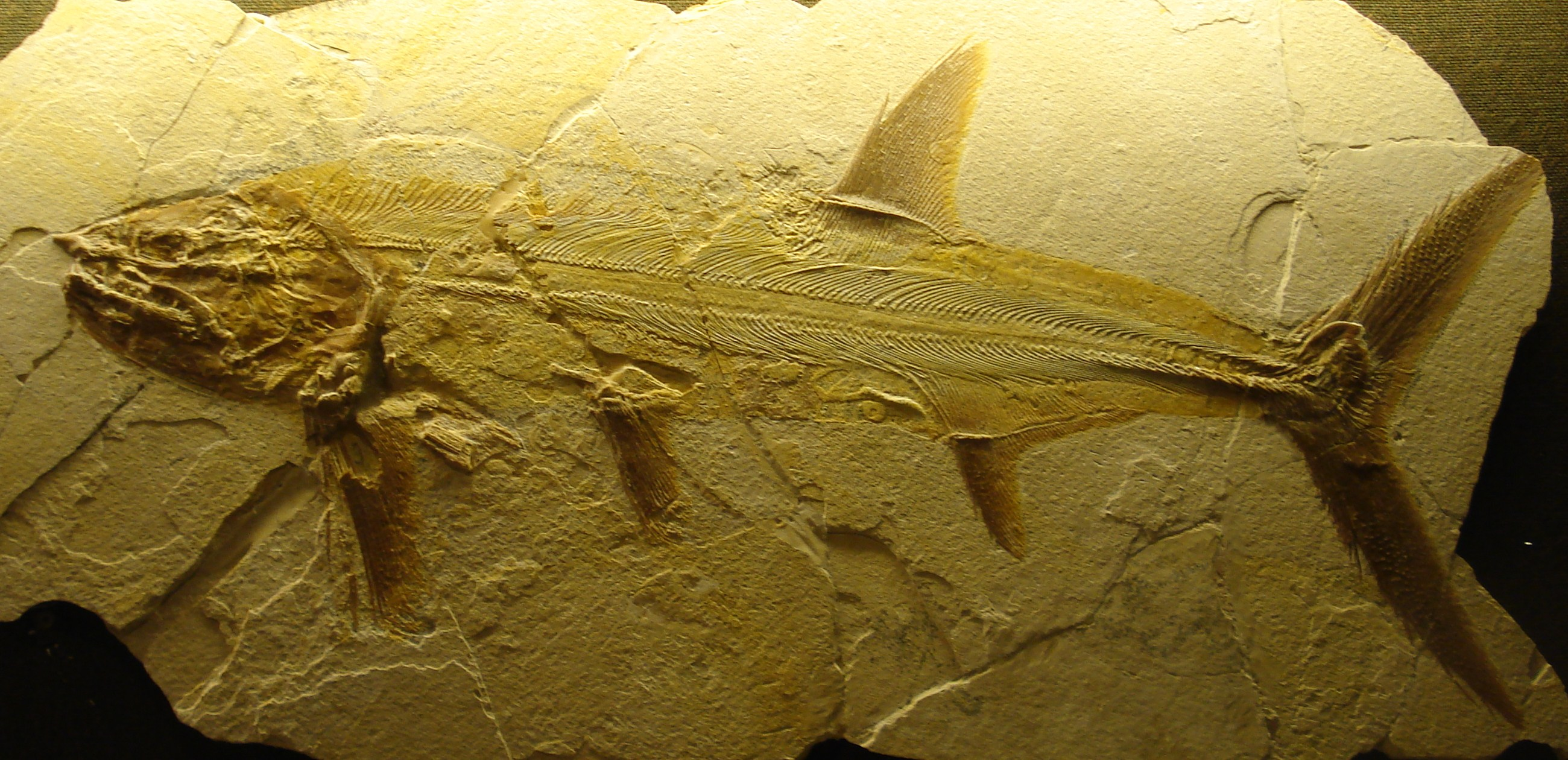 fossil of orthocormus